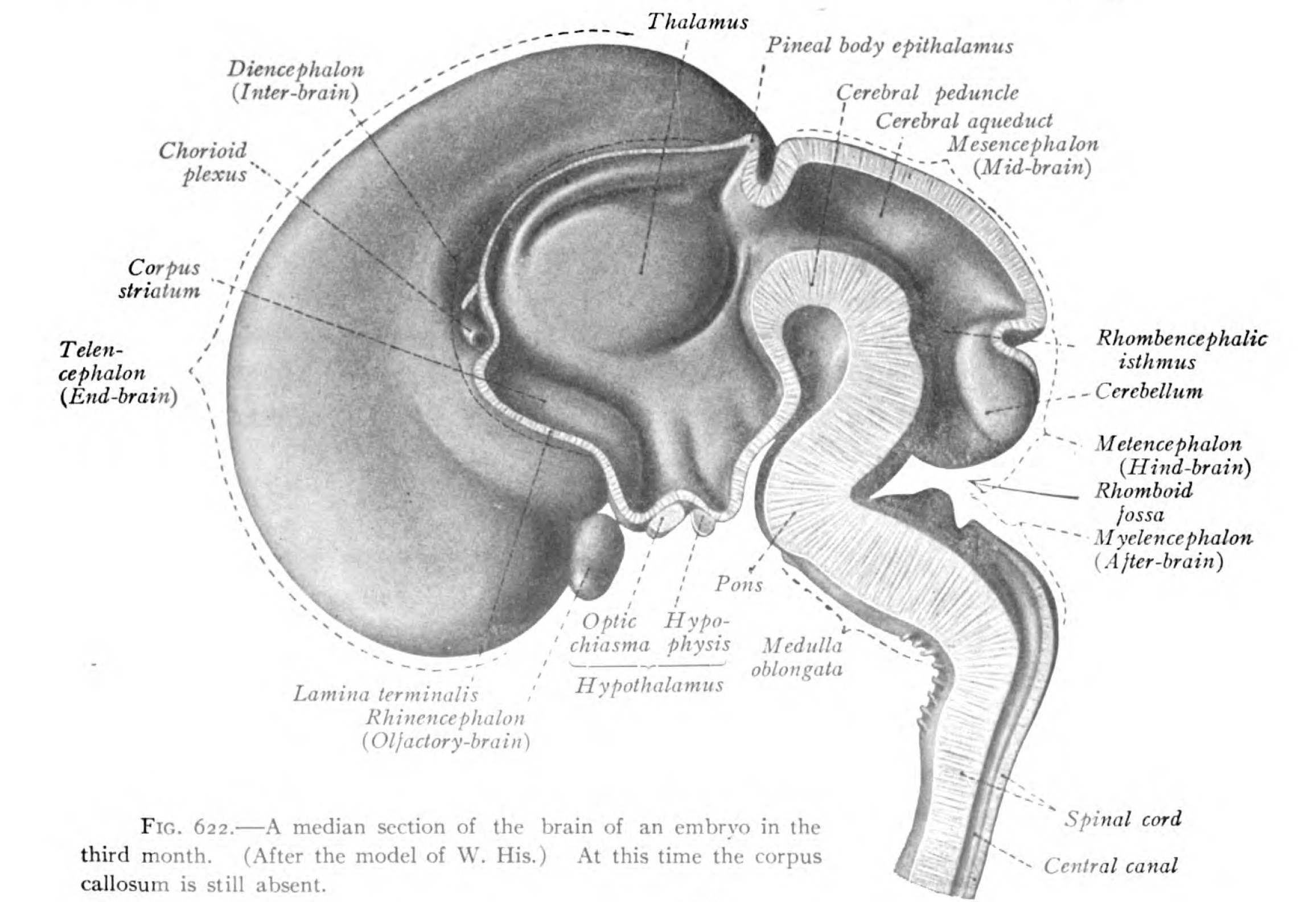 An anatomical illustration from Sobotta's Human Anatomy 1908